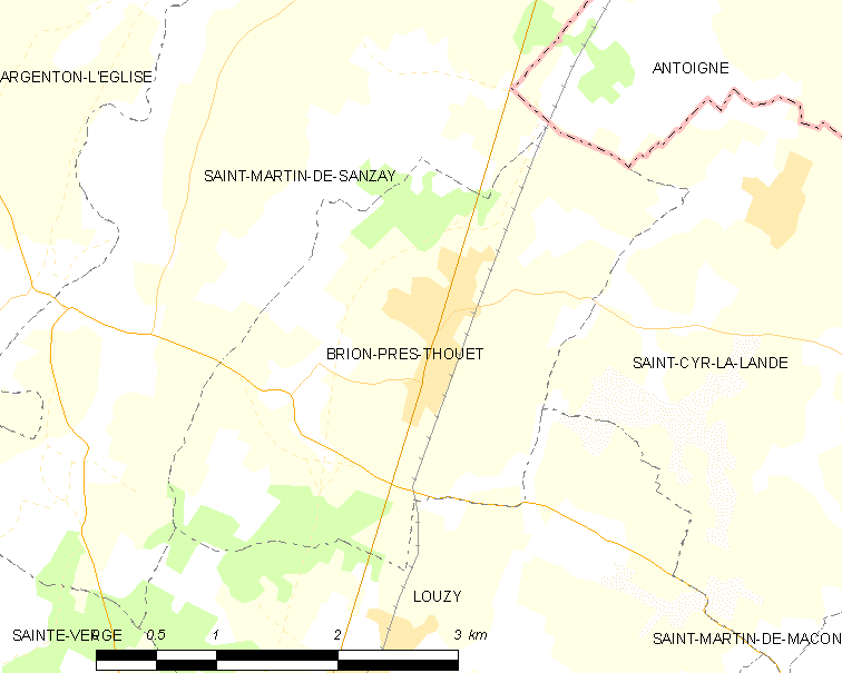 Map of French municipality Brion-près-Thouet